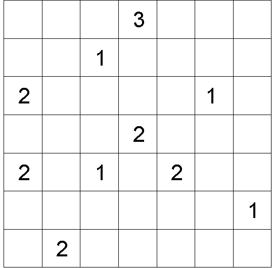 Mochikoro grid